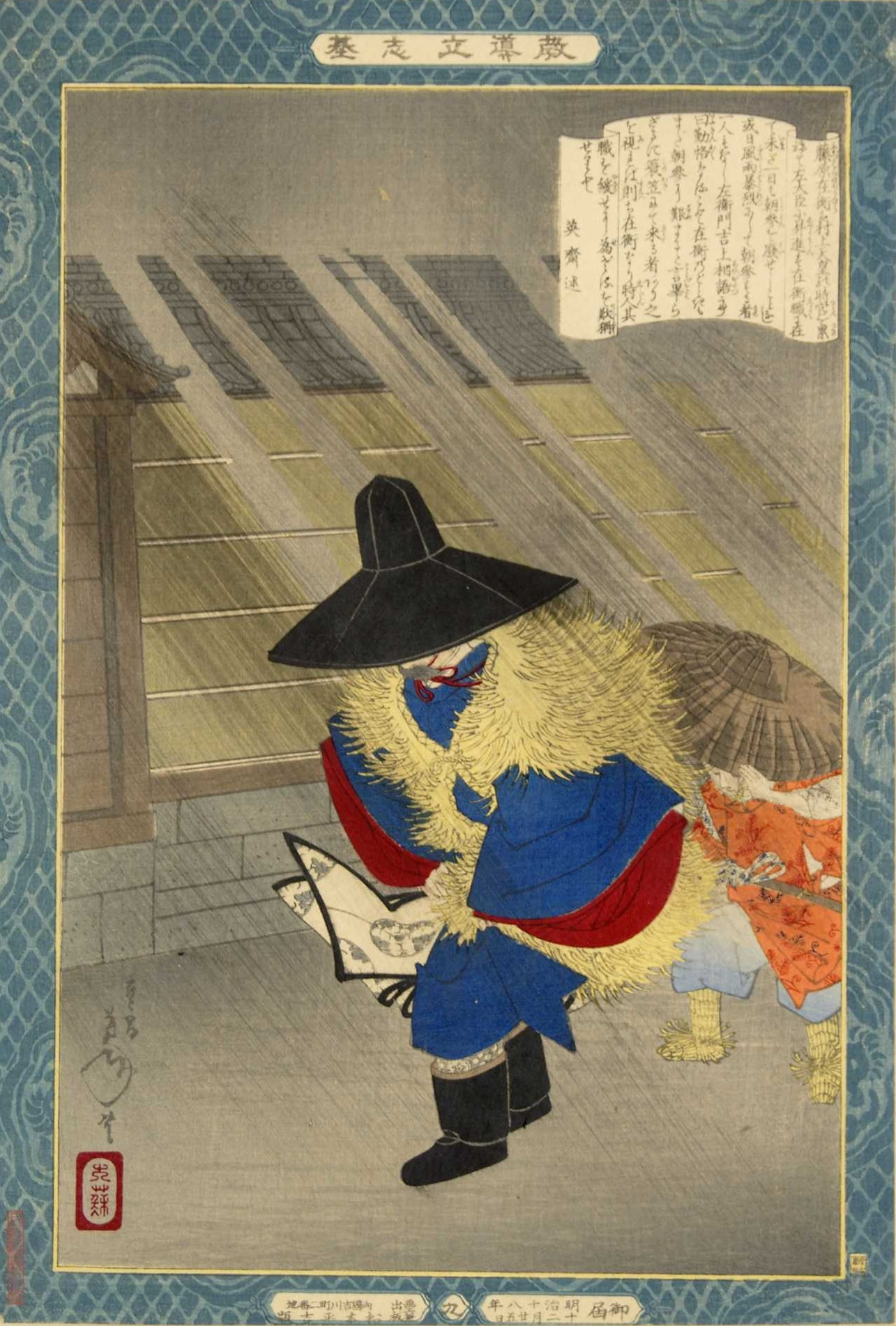 Fujiwara no Arihira, from the series Instruction in the Fundamentals of Success, Woodblock print